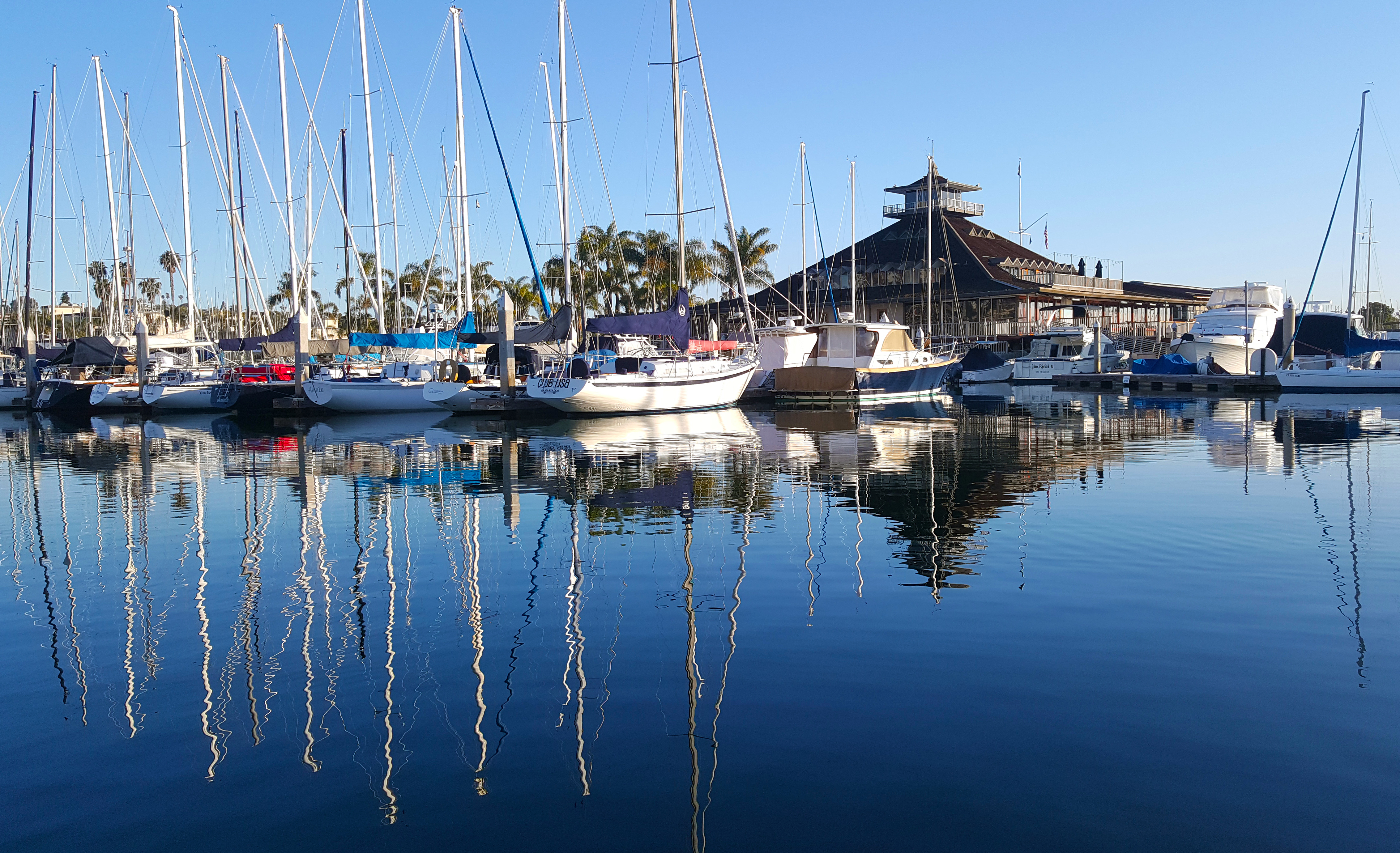 San Diego yacht club by Don Ramey Logan